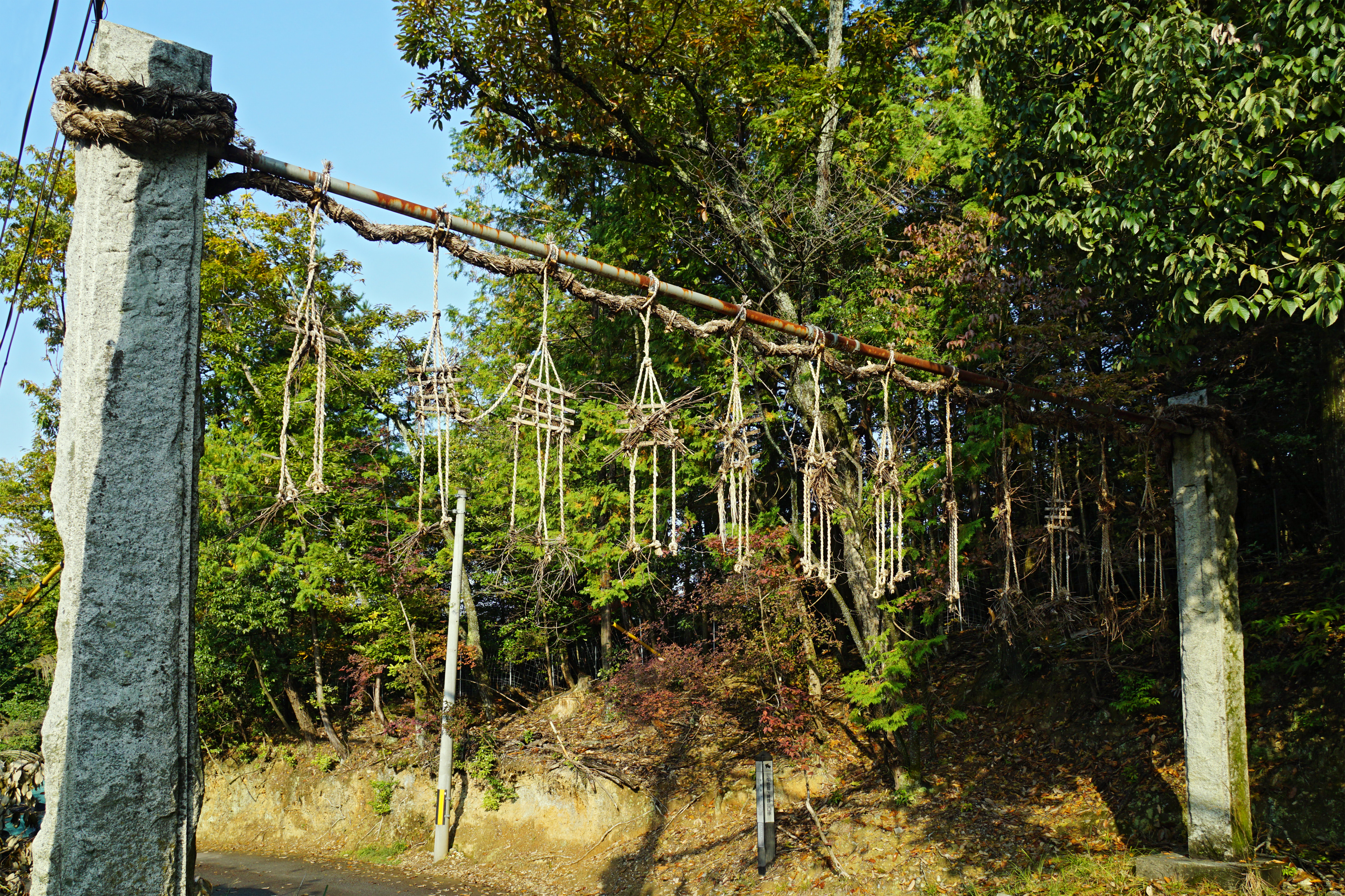 Kabusan-ji in Takatsuki, Osaka Prefecture, Japan